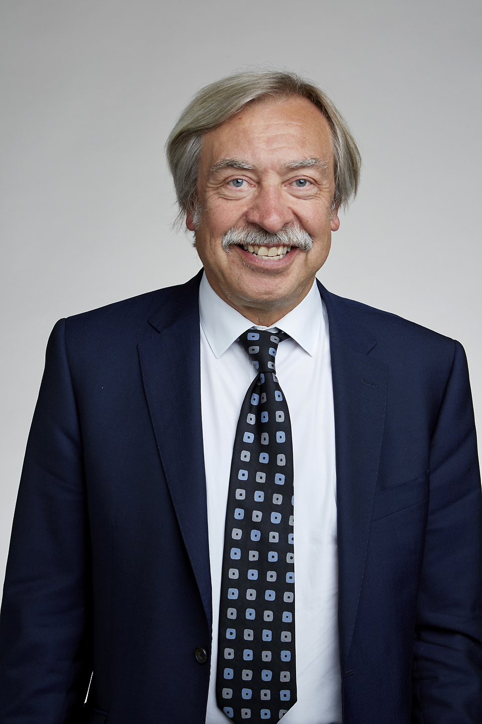 Adrian Clive Hayday FMedSci FRS is the Kay Glendinning Professor and Chair in the Department of Immunobiology at King's College London and group leader at the Francis Crick Institute in the UK Attribution: The Royal Society